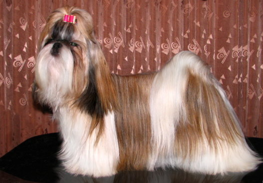 Shih Tzu